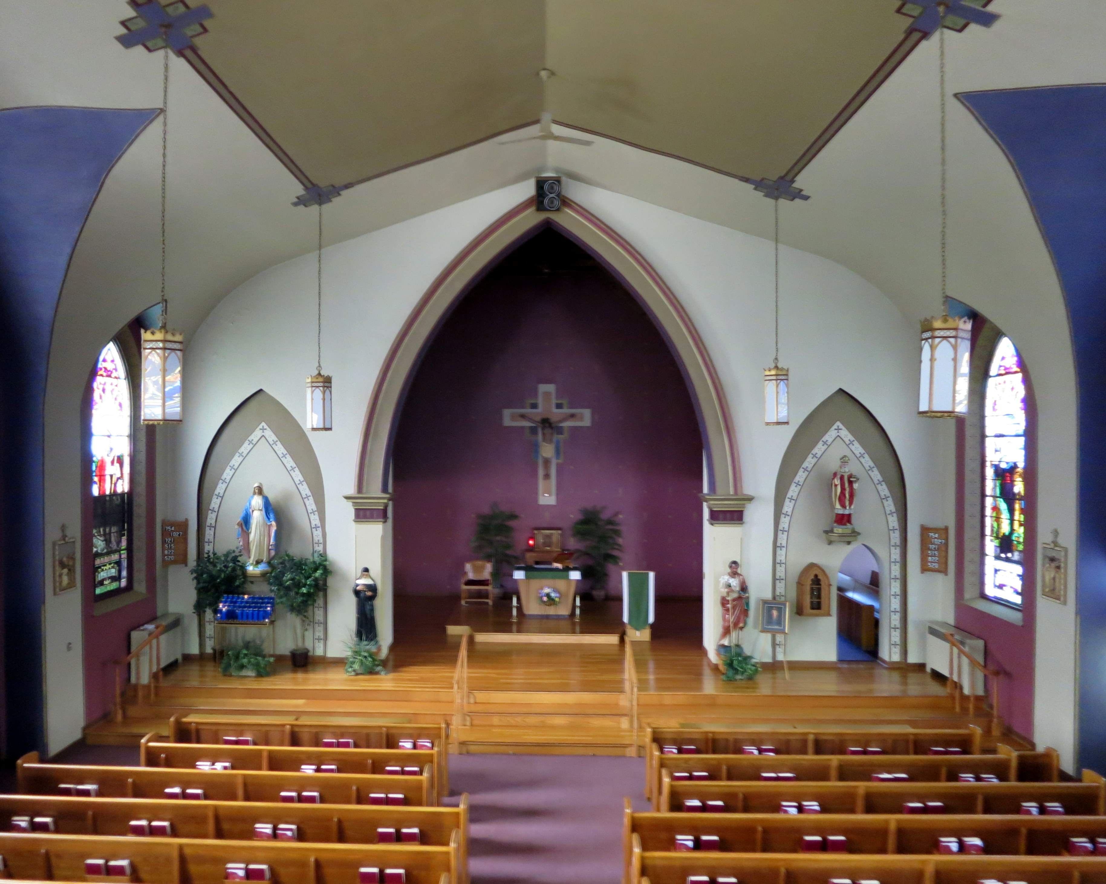 Saint Nicholas Church (Osgood, Ohio) - view from the loft